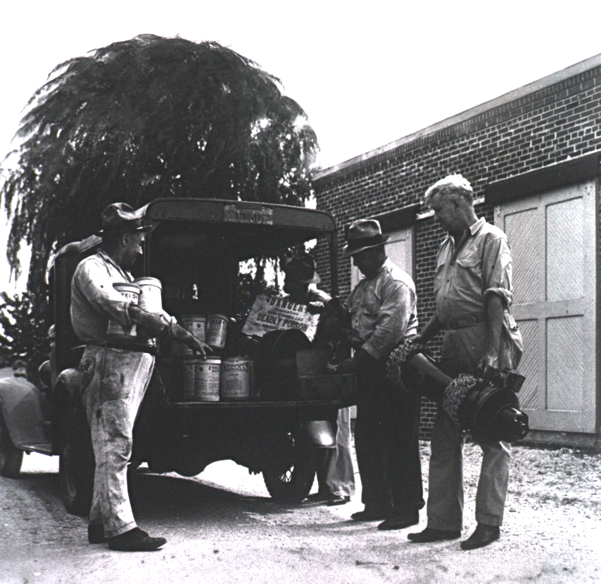 "A fumigating and disinfecting team getting ready to work in New Orleans" 1939